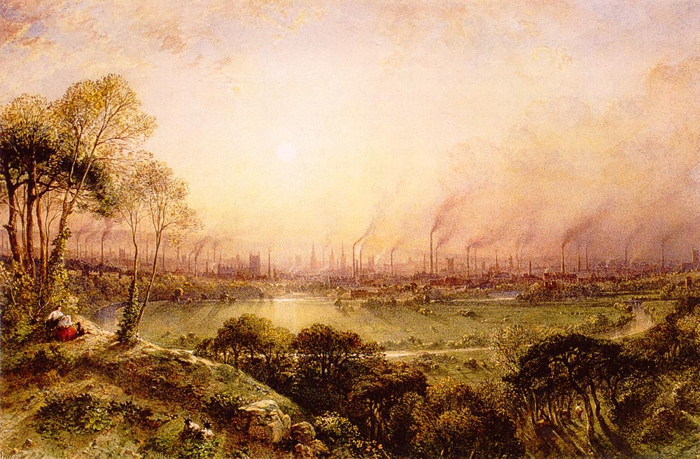 Later rendered as an engraving entitled Cottonopolis by Edward Goodall